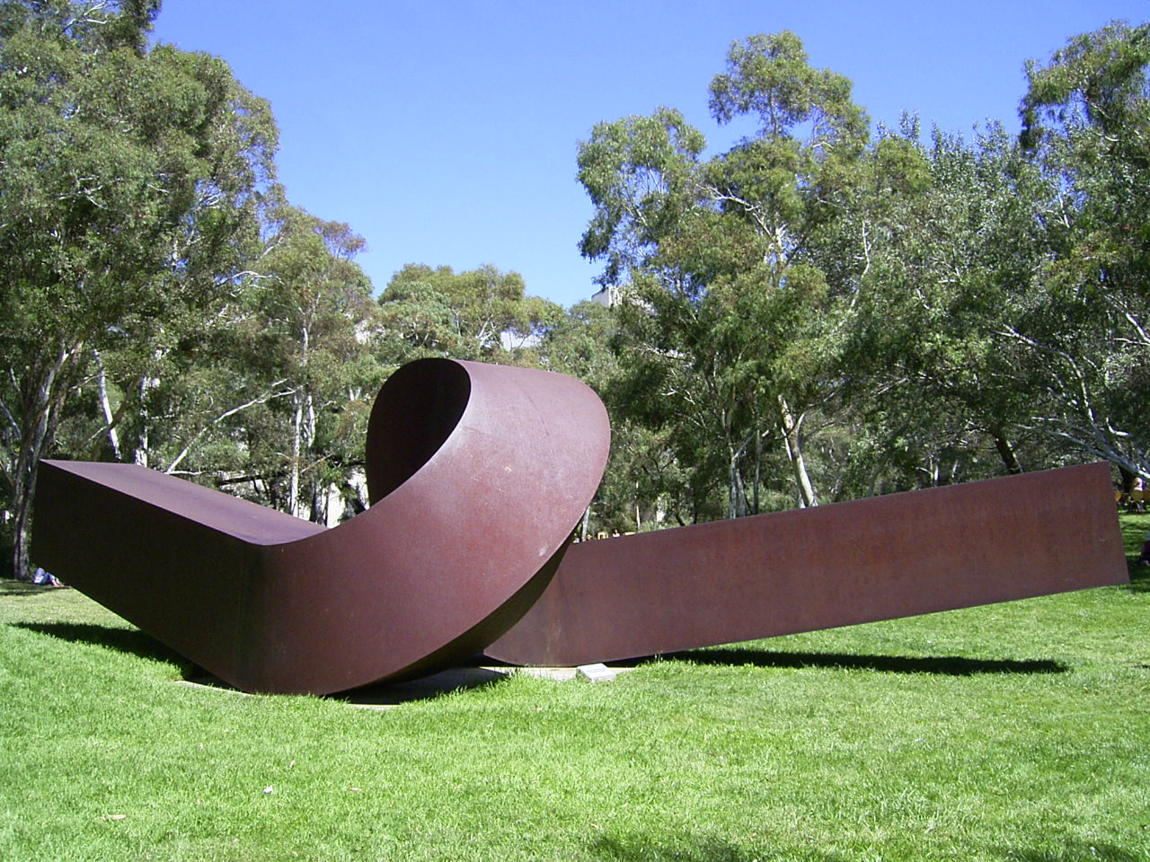 Sculpture garden of the National Gallery of Australia with sculpture Virginia (1970/3) by Clement Meadmore